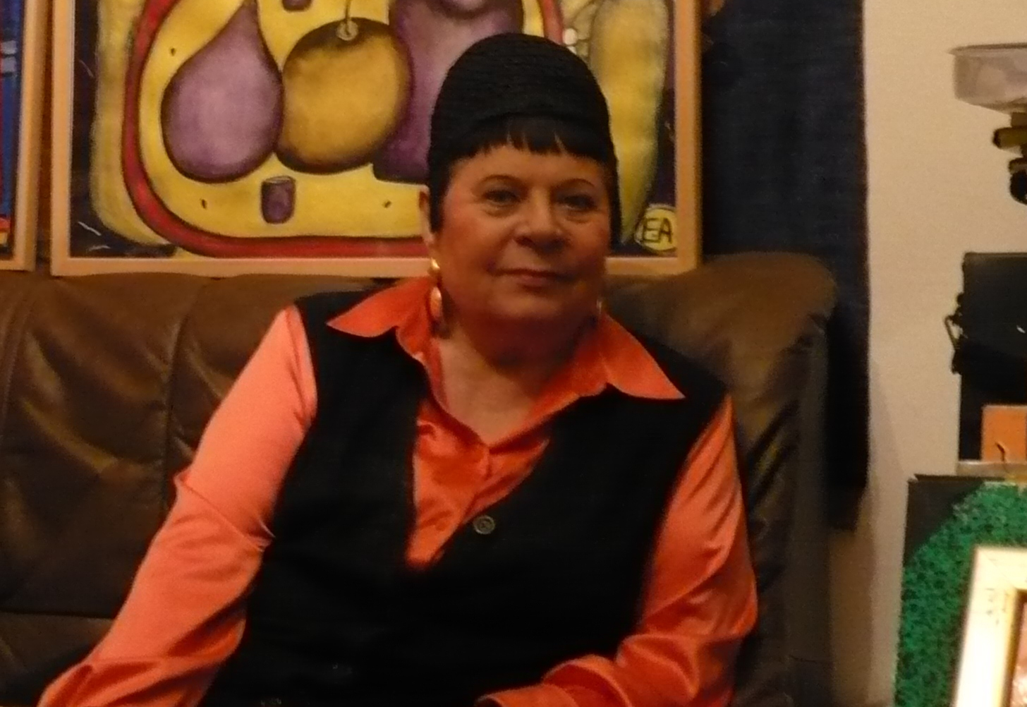 Emma Andijewska at her home. Two pictures drawn by Emma Andijewska are on the wall behind her: "In the bath" (left) and "The two with a tray of fruits" (right).